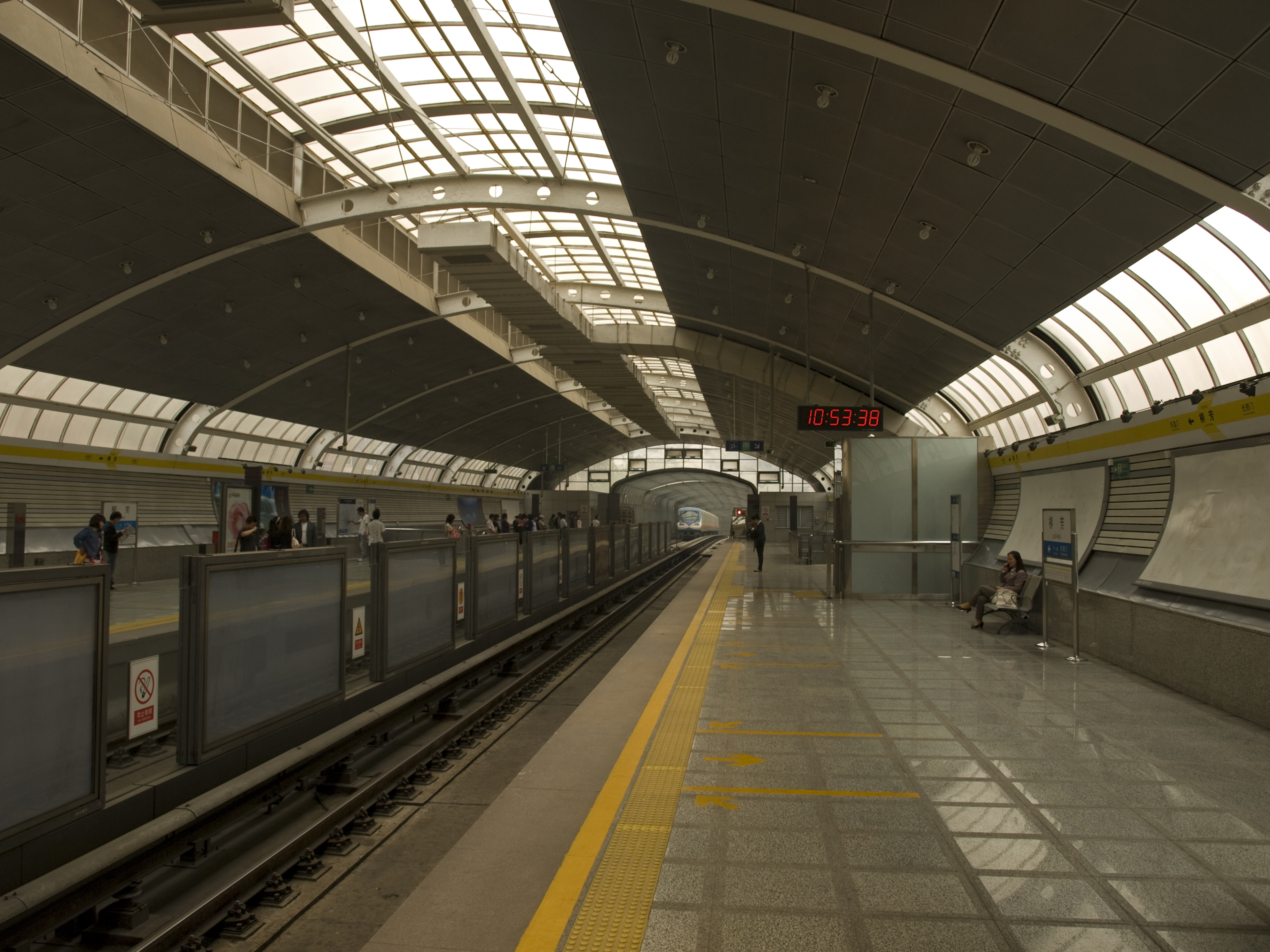 Liufang station, Beijing subway